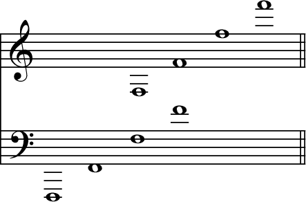 Notes, F